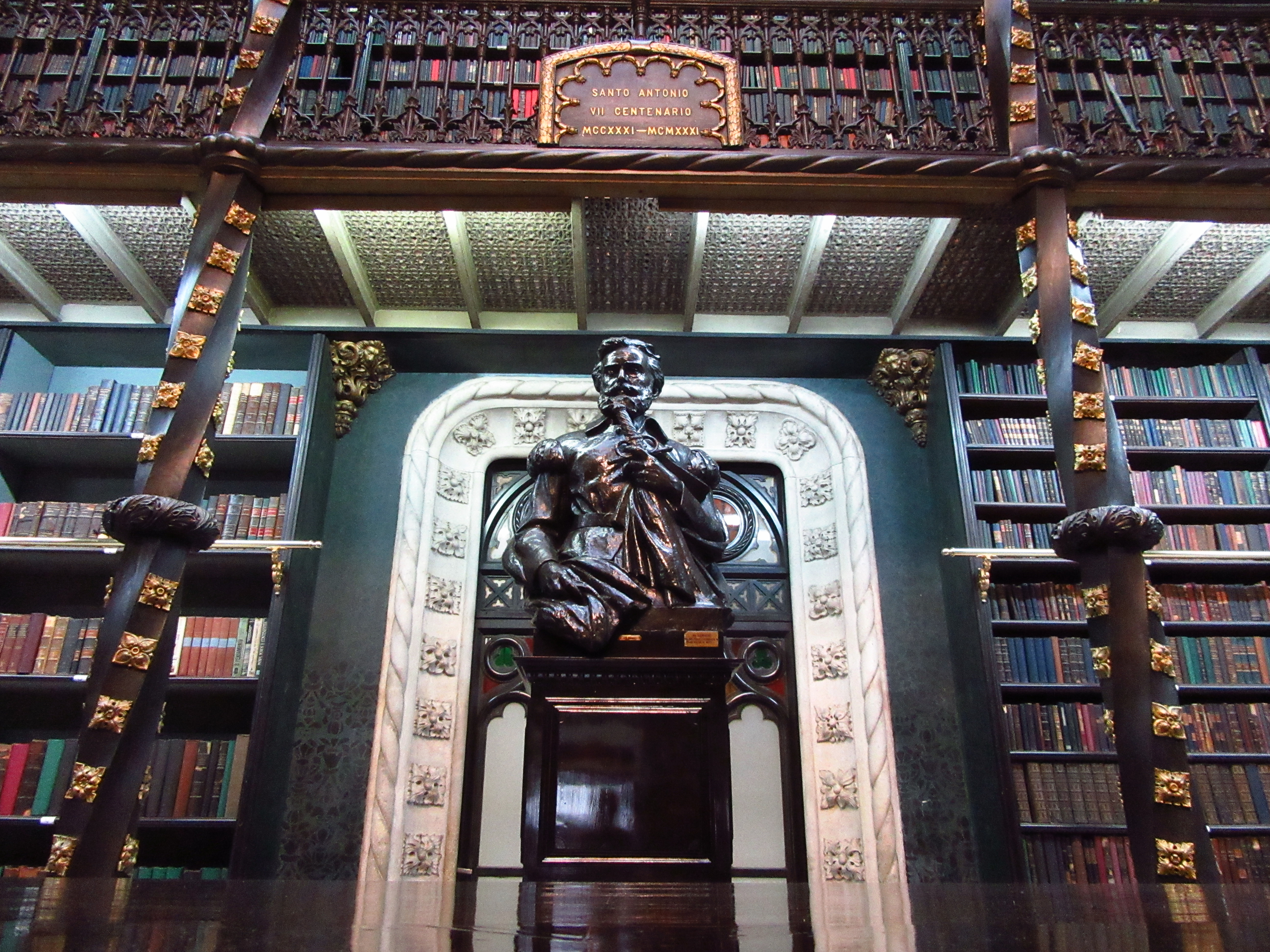 2018 Rio de Janeiro